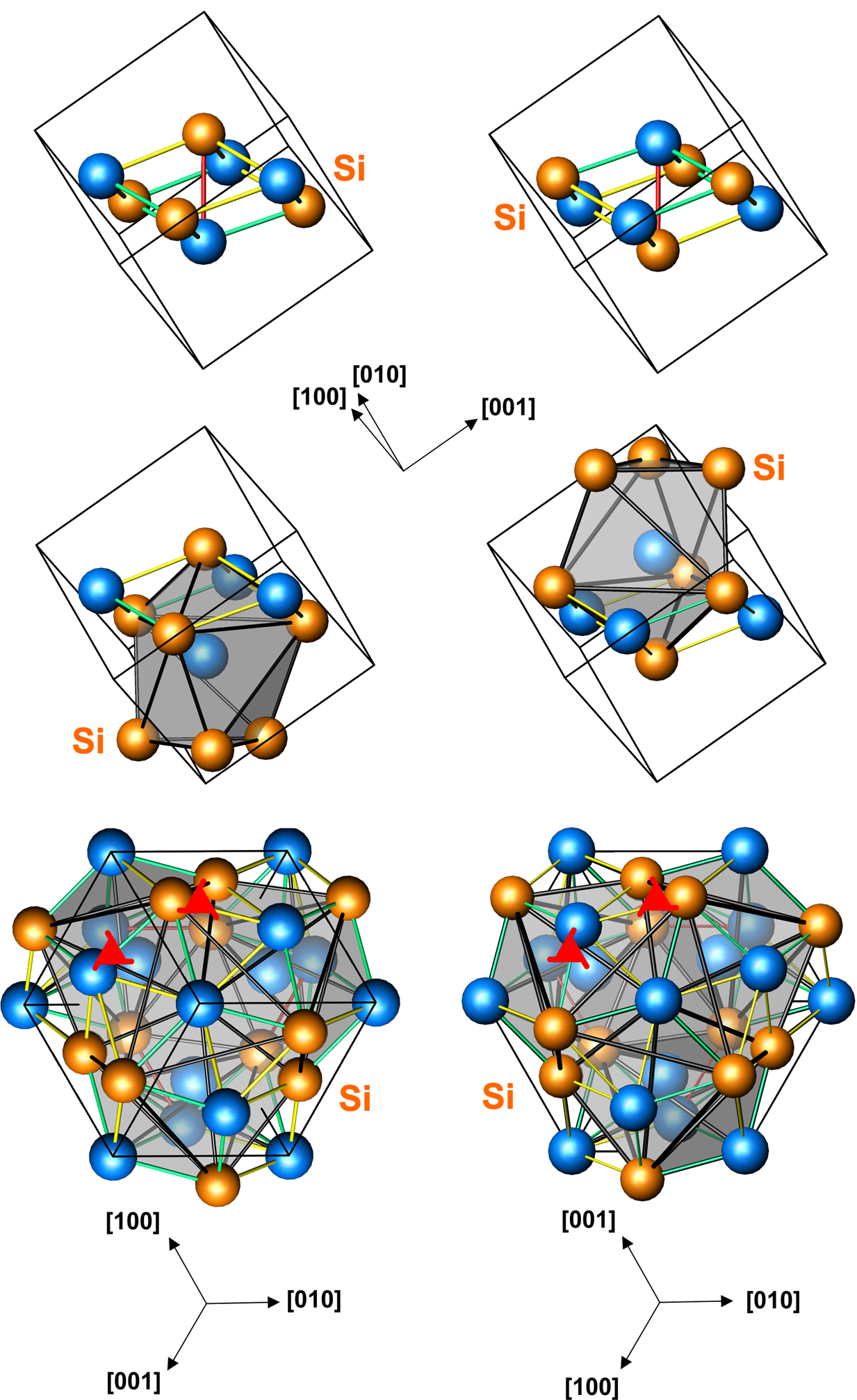 Crystal structure of left-handed and right-handed MeSi crystals (Me=Fe, Co, Mn) with different numbers of atoms per unit cell shown in the top, middle and bottom panels